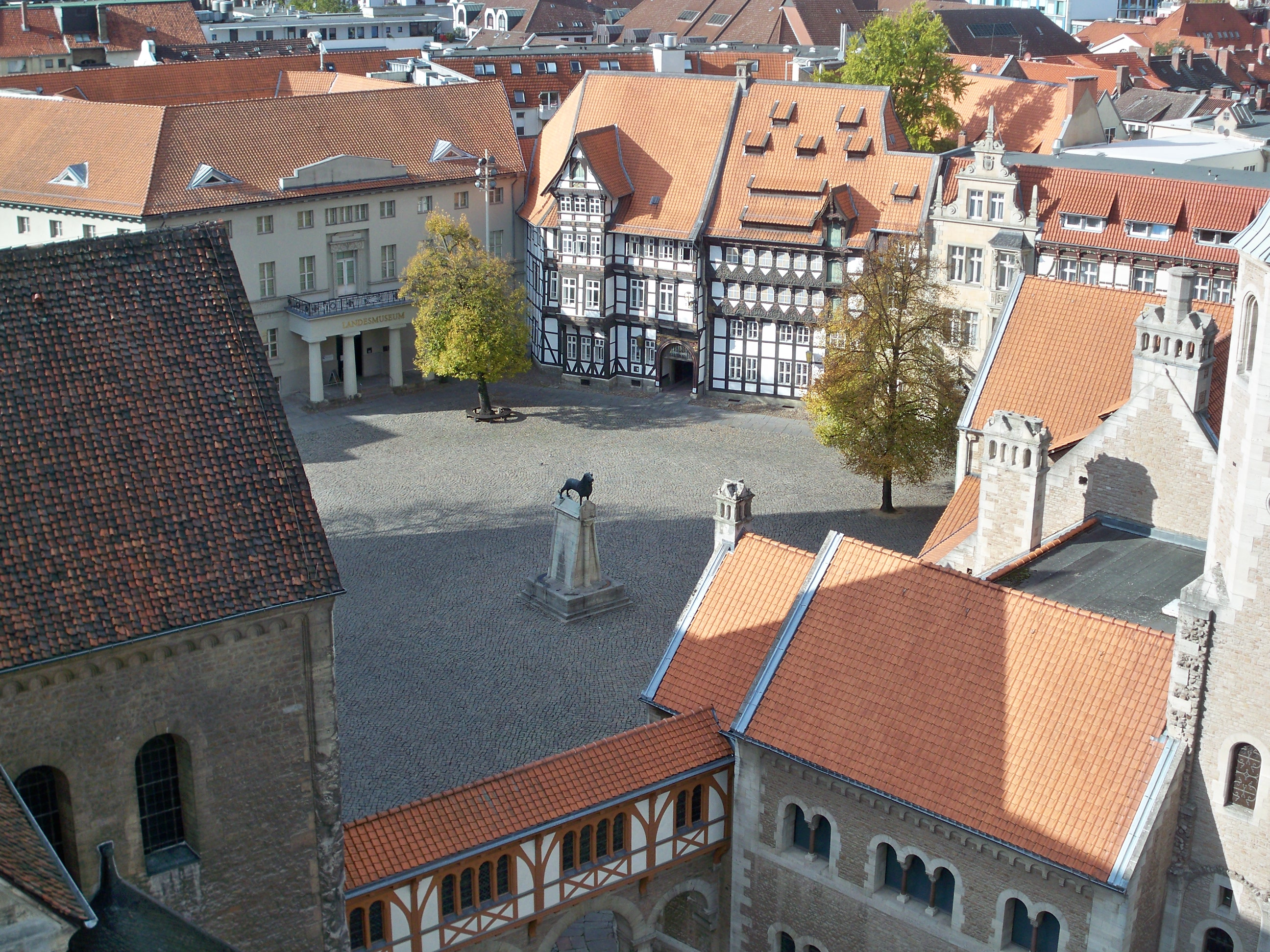 Brunswick, Germany, Burgplatz, seen from the tower of the city hall